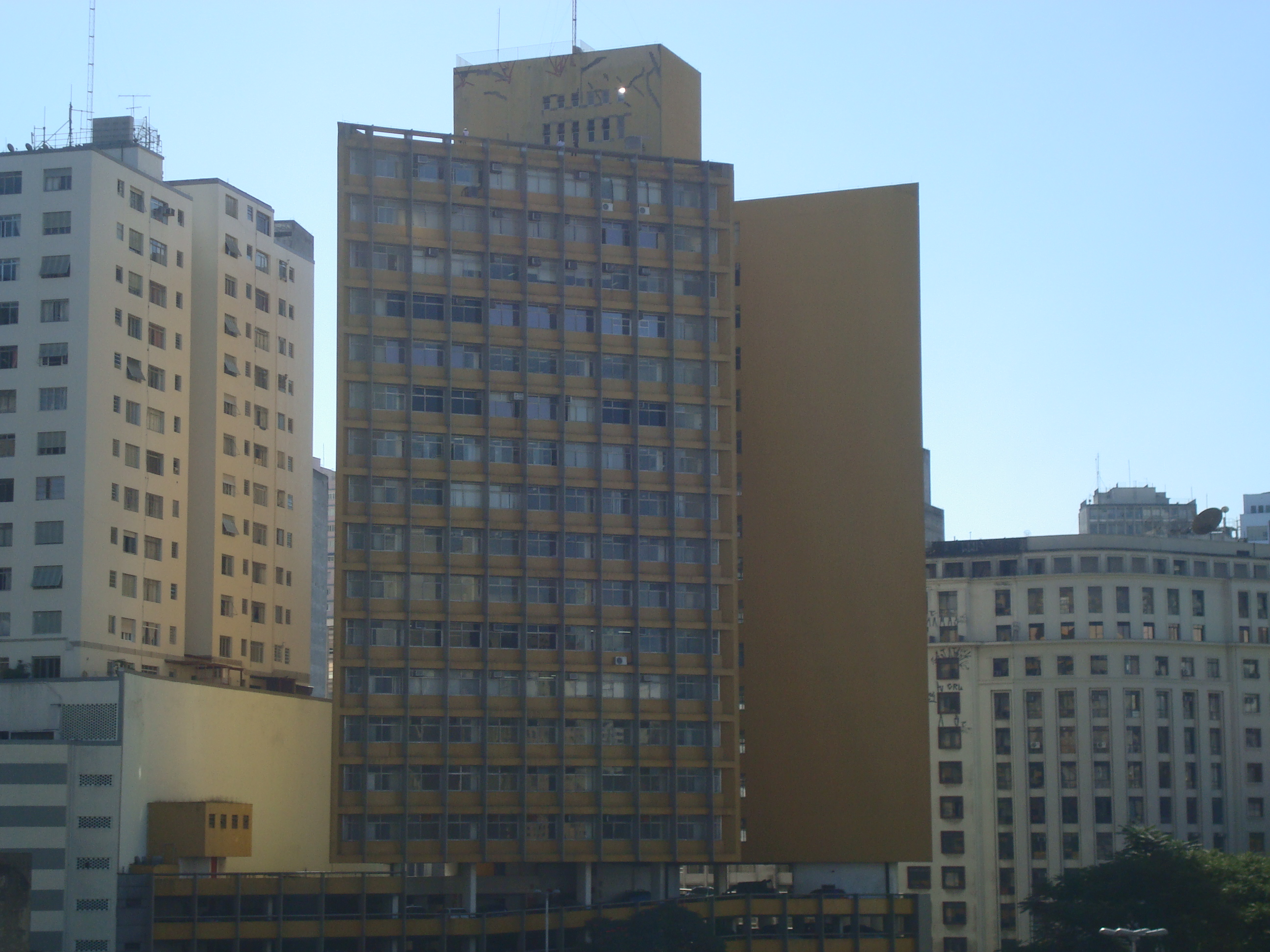 Edifício Joelma, todays Condomínio Edifício Praça da Bandeira (city of São Paulo), location of the big fire of 1. February 1974.